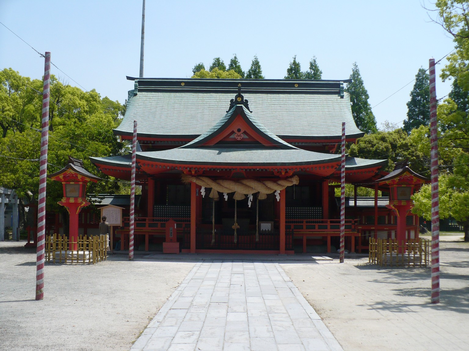 The front shrine of Furogu, Okawa city Fukuoka prefecture Japan.